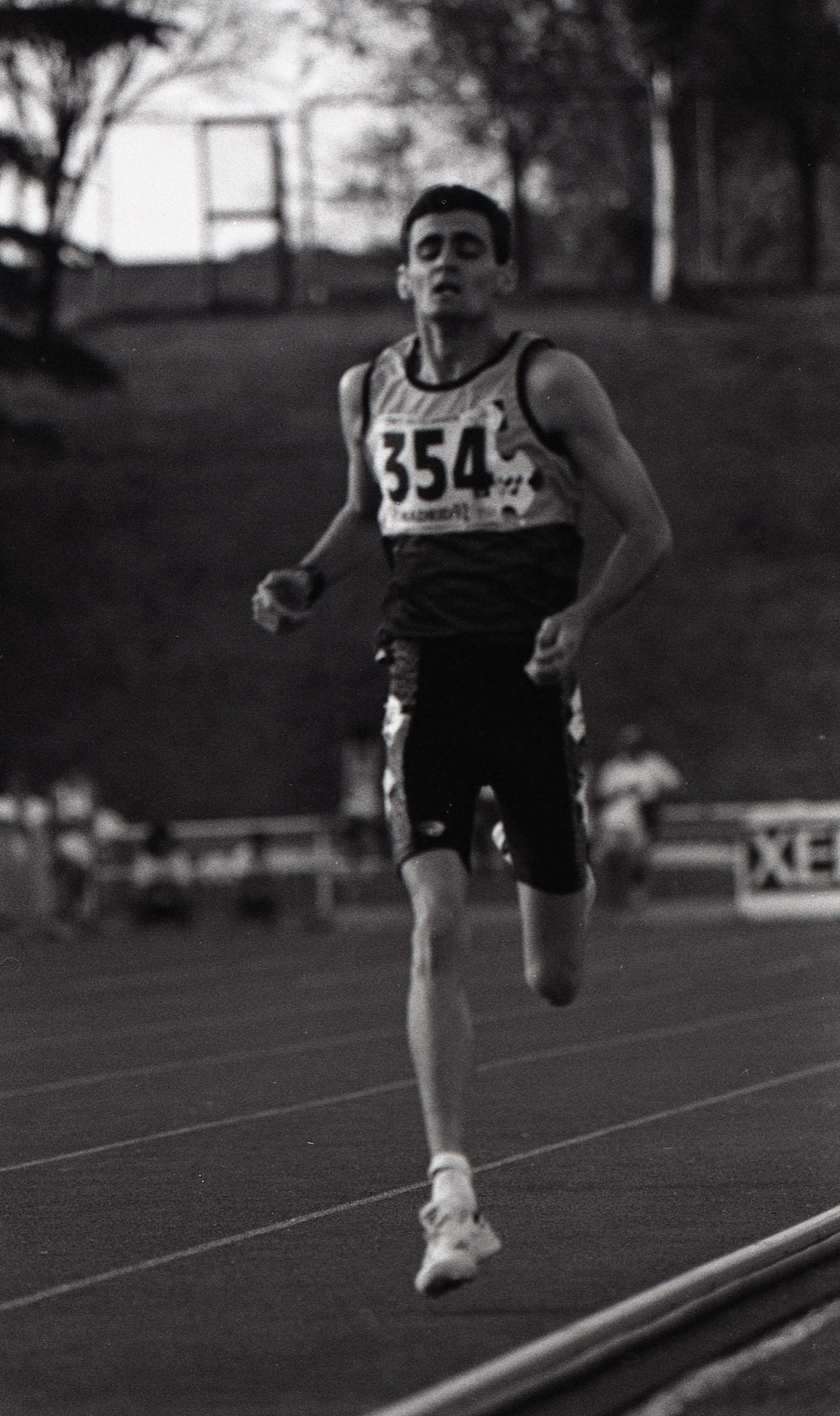 Western Australian middle distance runner Paul Mitchell competes at the 1992 Madrid Paralympic Games for Persons with Mental Handicap.